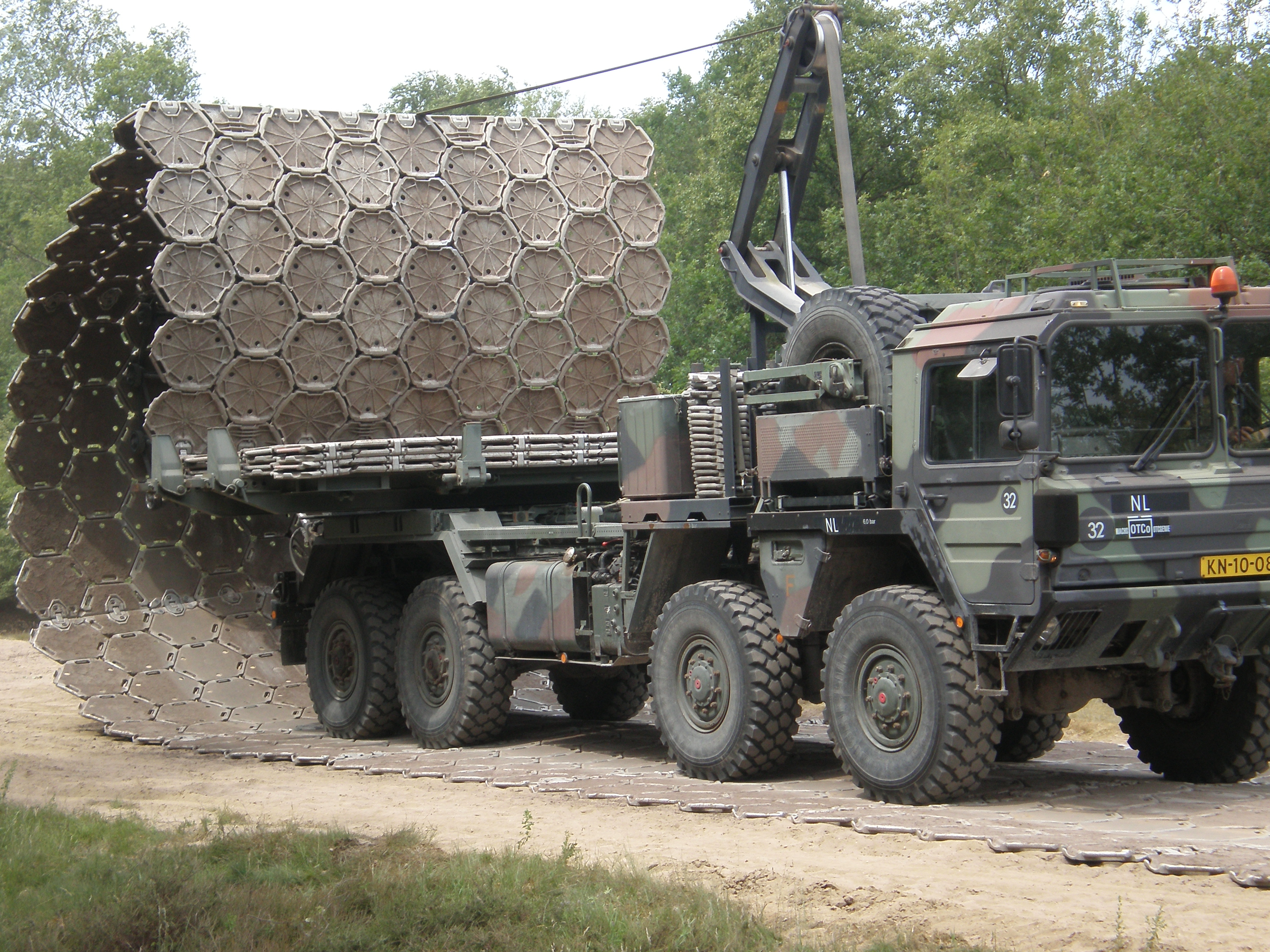 An MLC-70